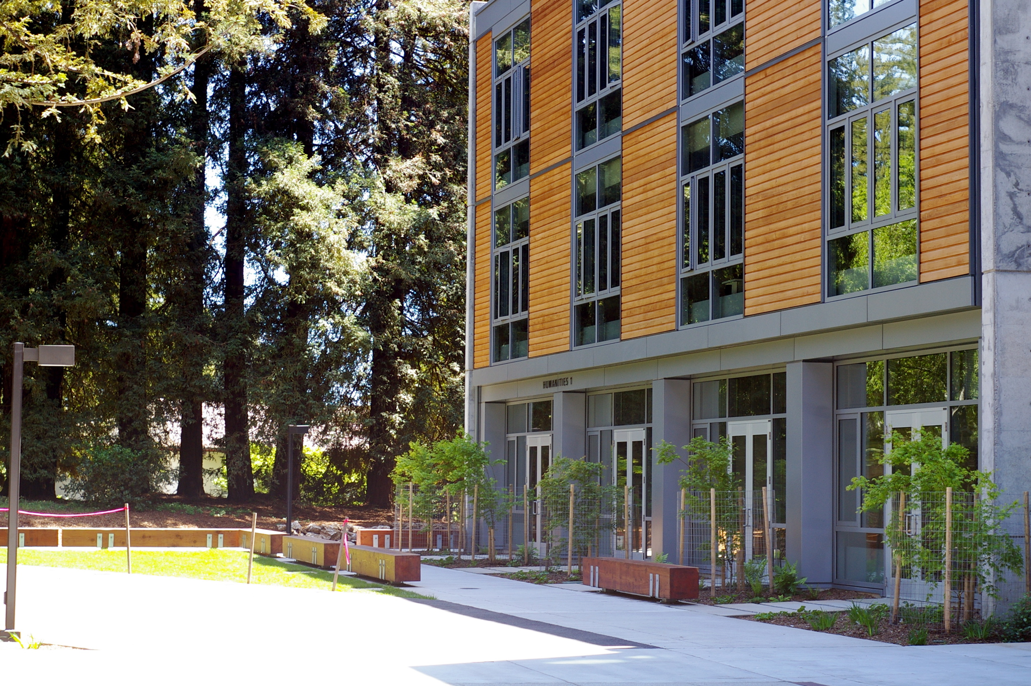 UCSC_Humanities building